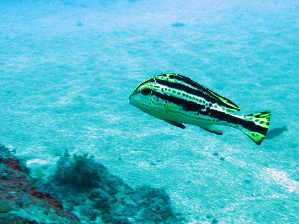 The Juvenile of Striped sweetlips ( Plectorhinchus lessonii ) found in Long-Dong Bay, one of the famous diving site located at northeast coast, TAIWAN.